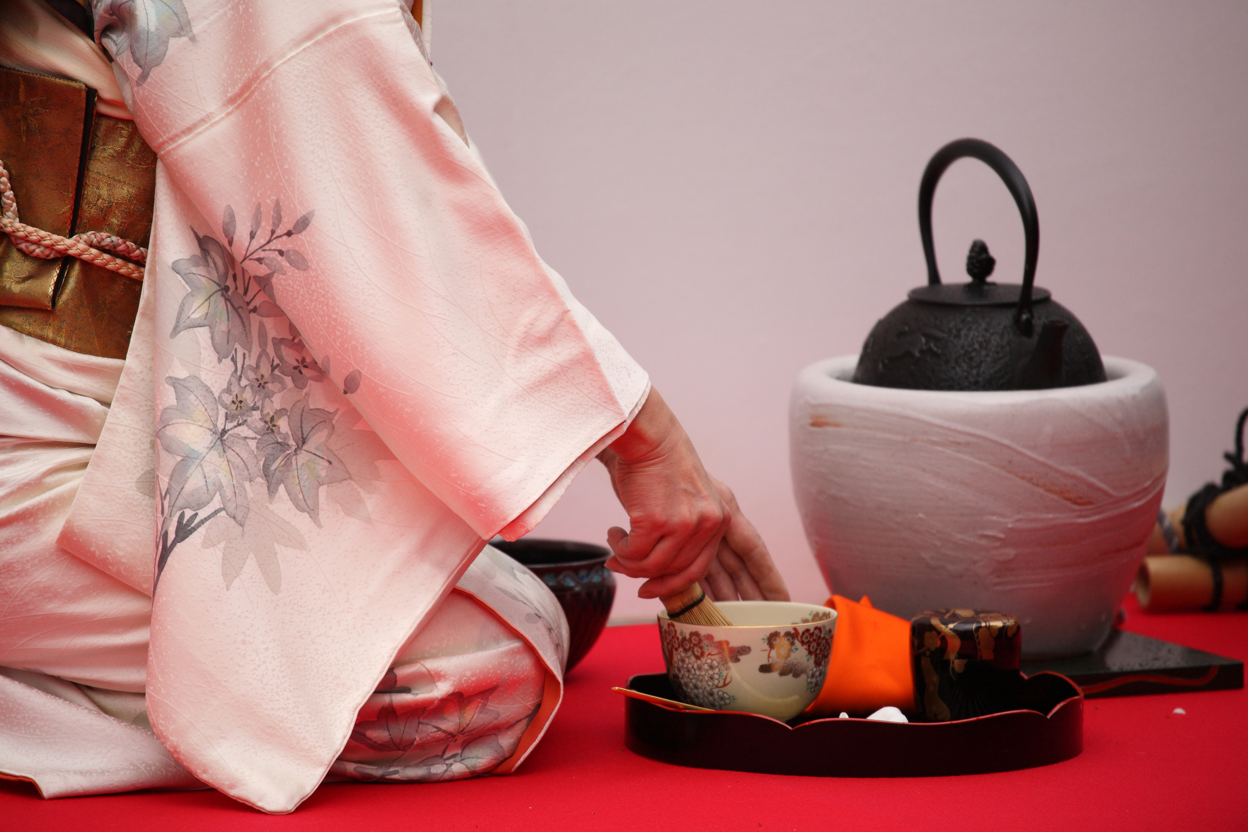 Outdoor Tea Ceremony in Japan